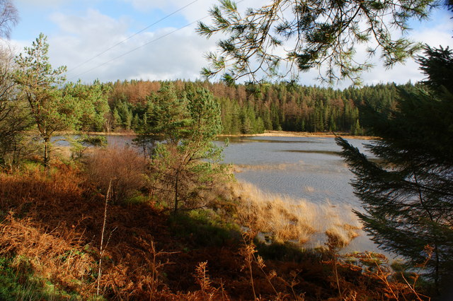 Llyn Sarnau